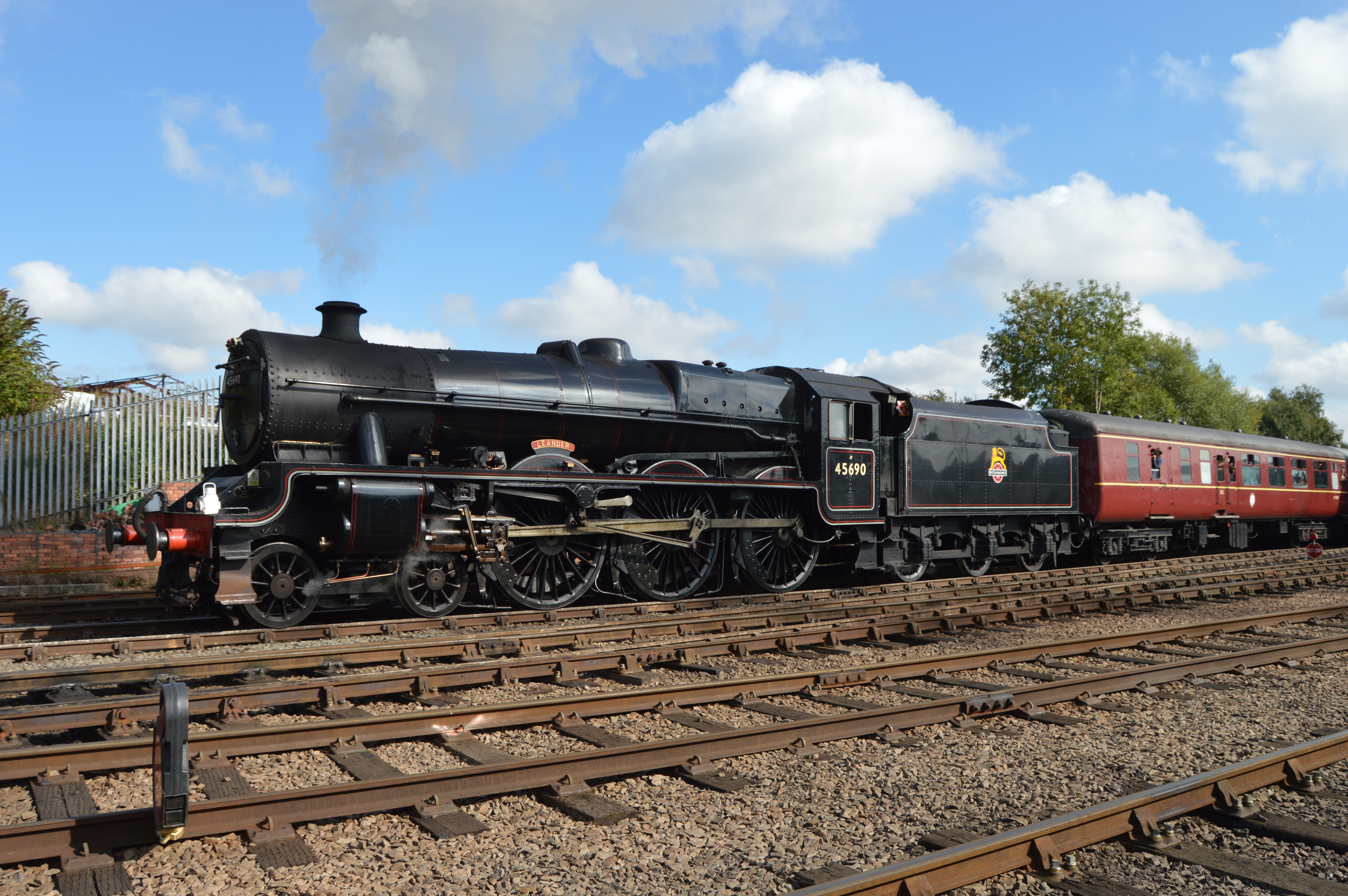 LMS 45690 Leander working the passenger shuttles at Barrow Hill Roundhouse during the LMS gala on Sun 27th September 2015.